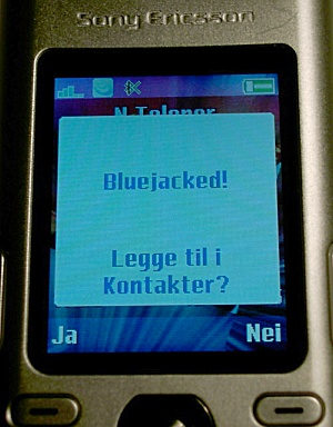 A Sony Ericsson K600i getting Bluejacked by a Siemens M75. Image taken and released to the public domain by User:Kallemax.